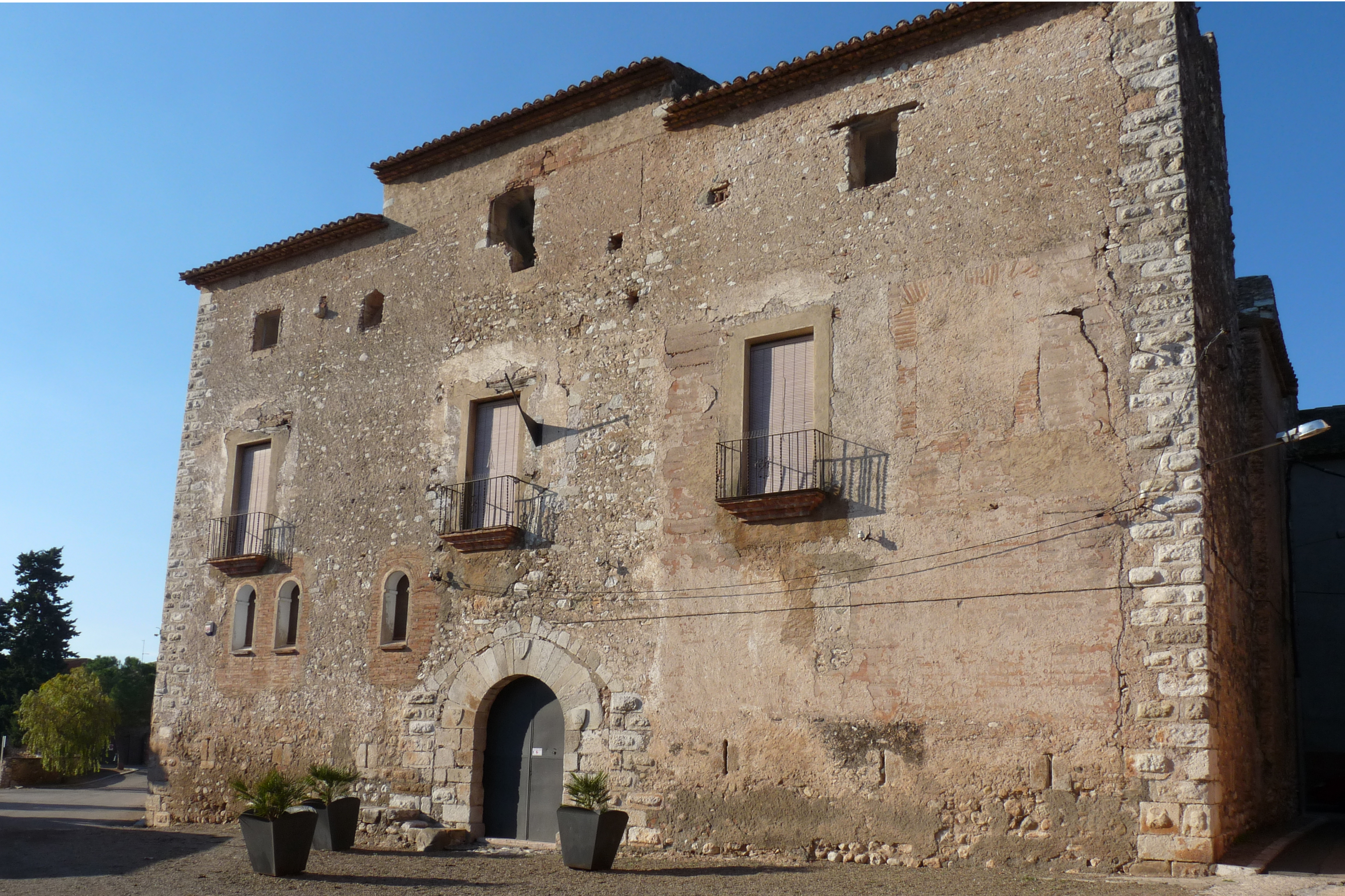 Mansion of the Marquises of Vallgornera, el Rourell